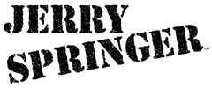 The logo of The Jerry Springer Show, in use since the show's tenth season starting fall 2000.